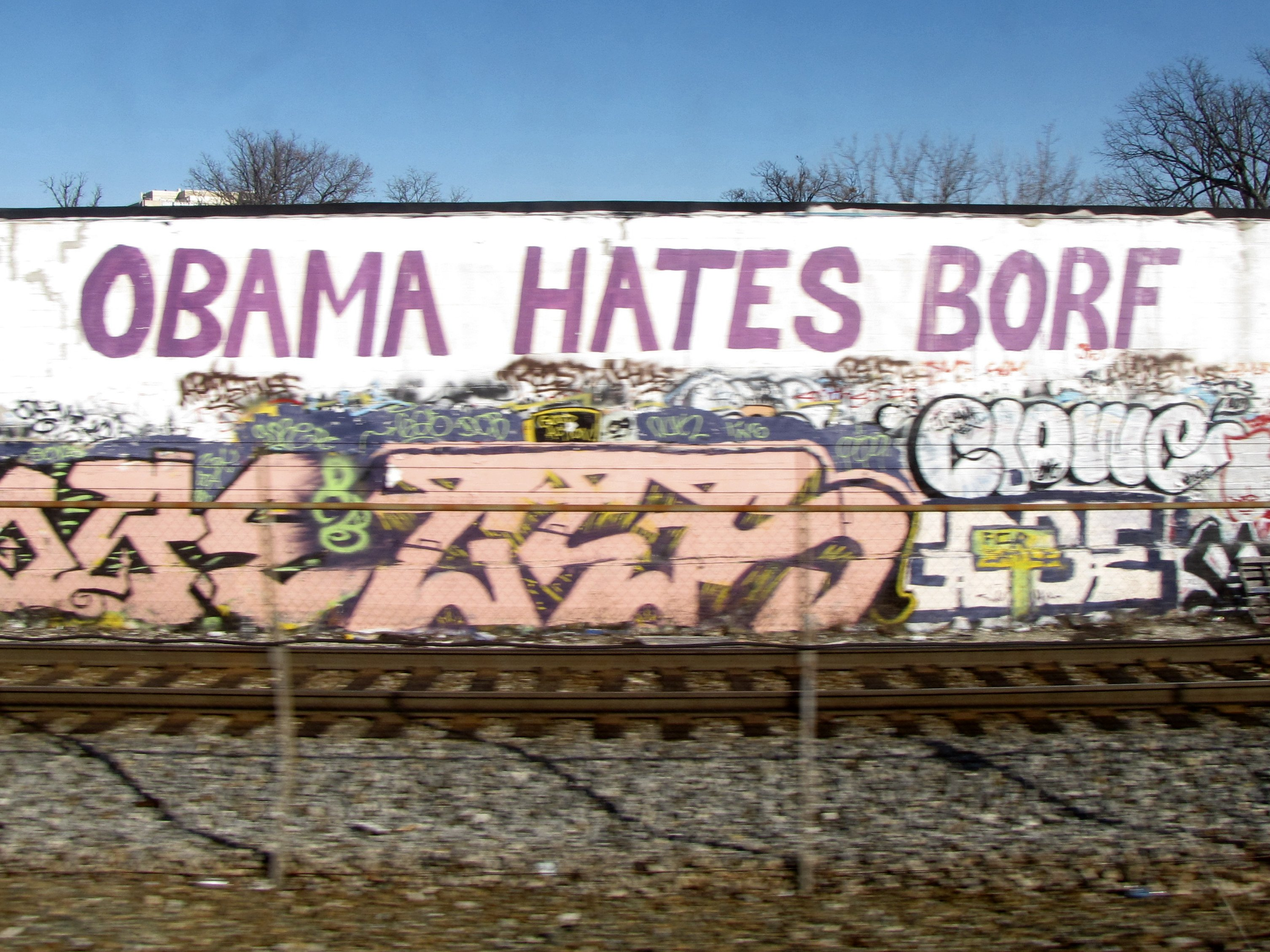 Large "OBAMA HATES BORF" message painted above other graffiti on the back wall of the Vision Lighting Building (300 Vine St NW, Washington, DC 20012). Visible from the Metro Red Line near the Takoma Metro station. This message replaced an earlier message saying "BUSH HATES BORF" in early 2009.